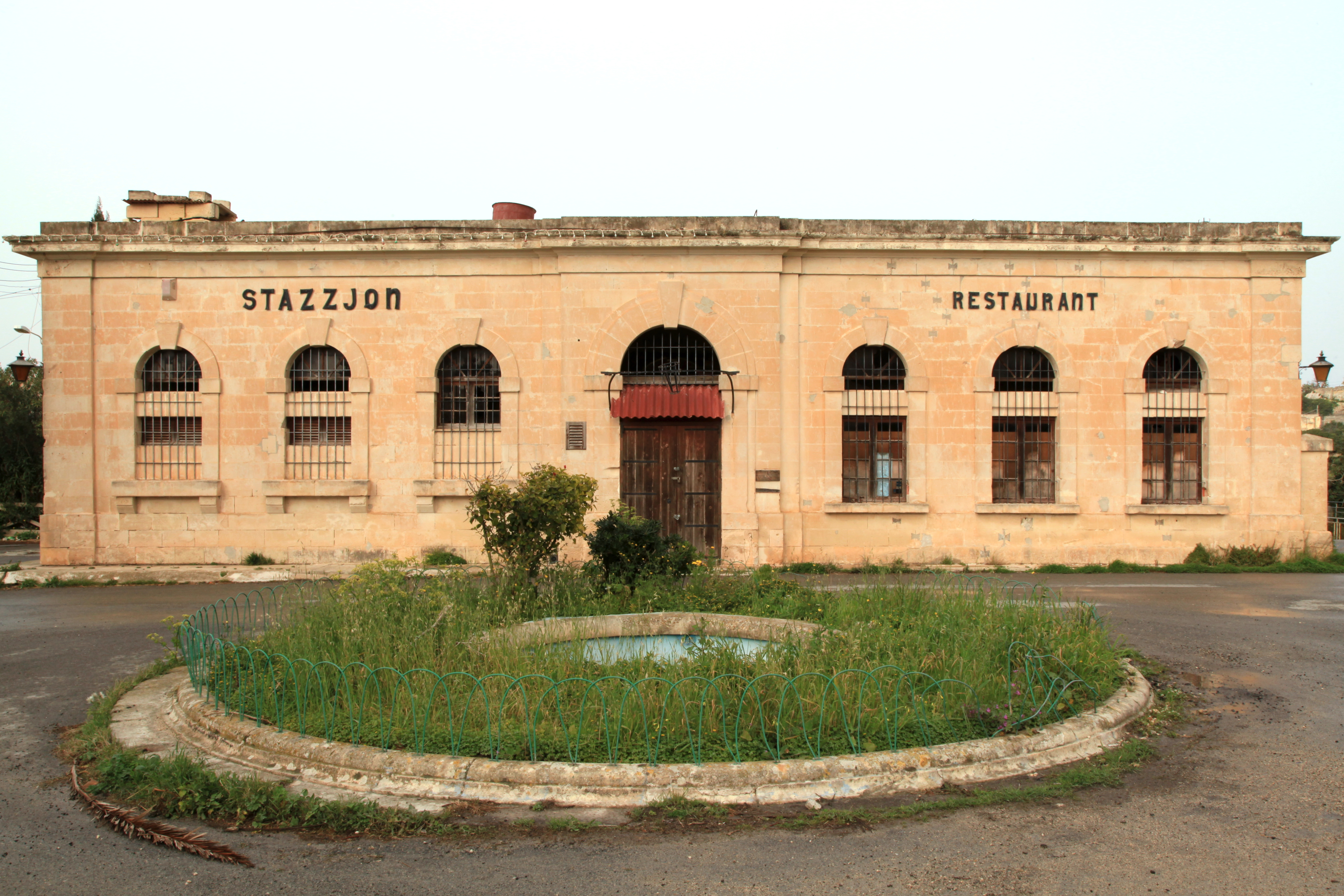 Former train station, Mina Għajn Hamiem in Mdina, Malta